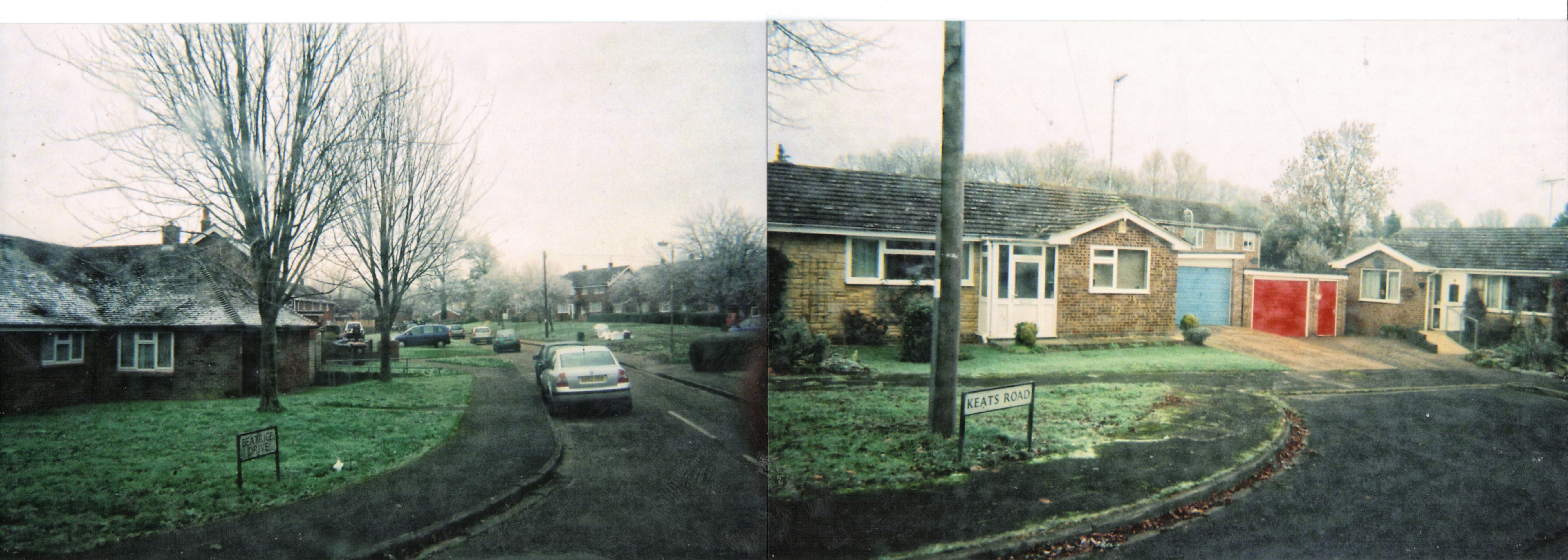 The Poets' Corner estate in Banbury in 2010.